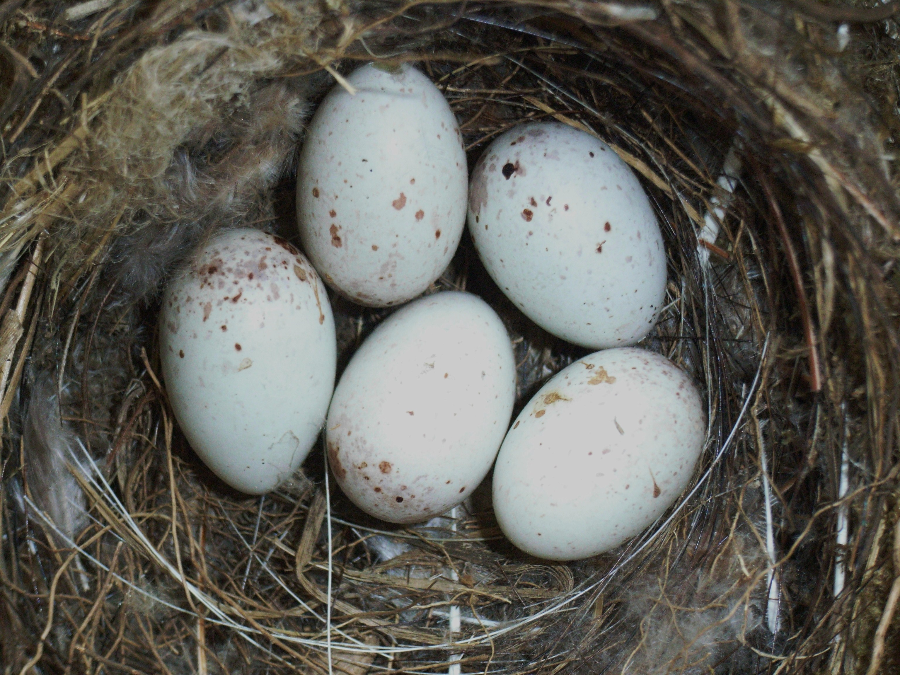 Carduelis chloris eggs